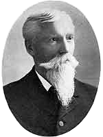 A photo of Thomas Scott.